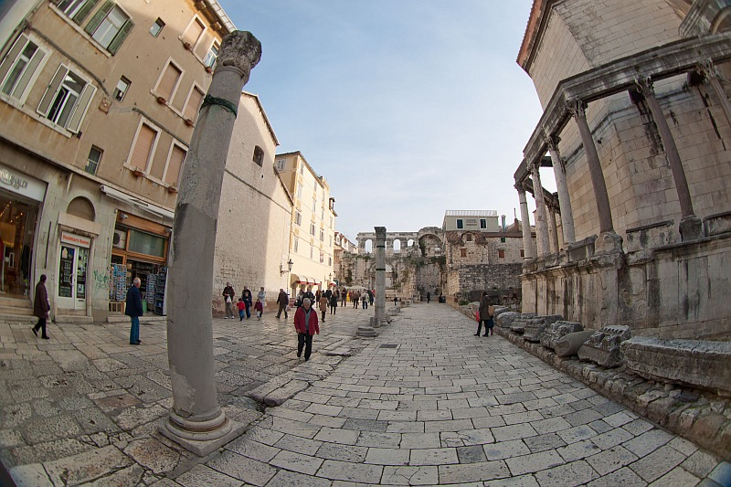 Diocletian's Palace street